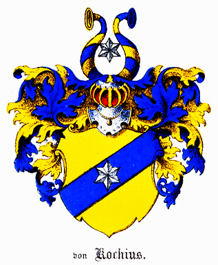 Coat of Arms of Kochius family